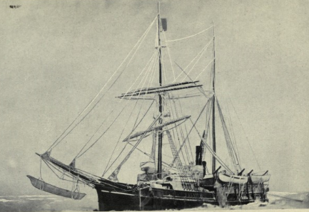 Photograph of the expedition ship Karluk fast in the ice, about 15 miles west of Manning Point, Alaska, August 1913.An umiak hangs in slings below the bowsprit.